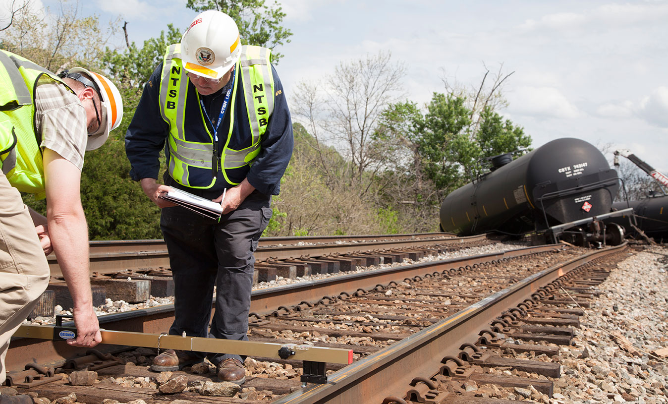 NTSB rail investigator Richard Hipskind documents track damage on scene of train derailment in Lynchburg, VA.